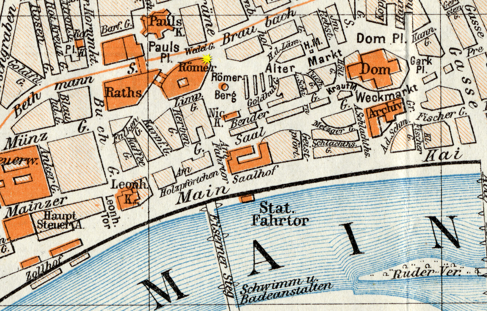 Frankfurt on the Main: Position of the Salzhaus (salt house) as seen on a map of the old town